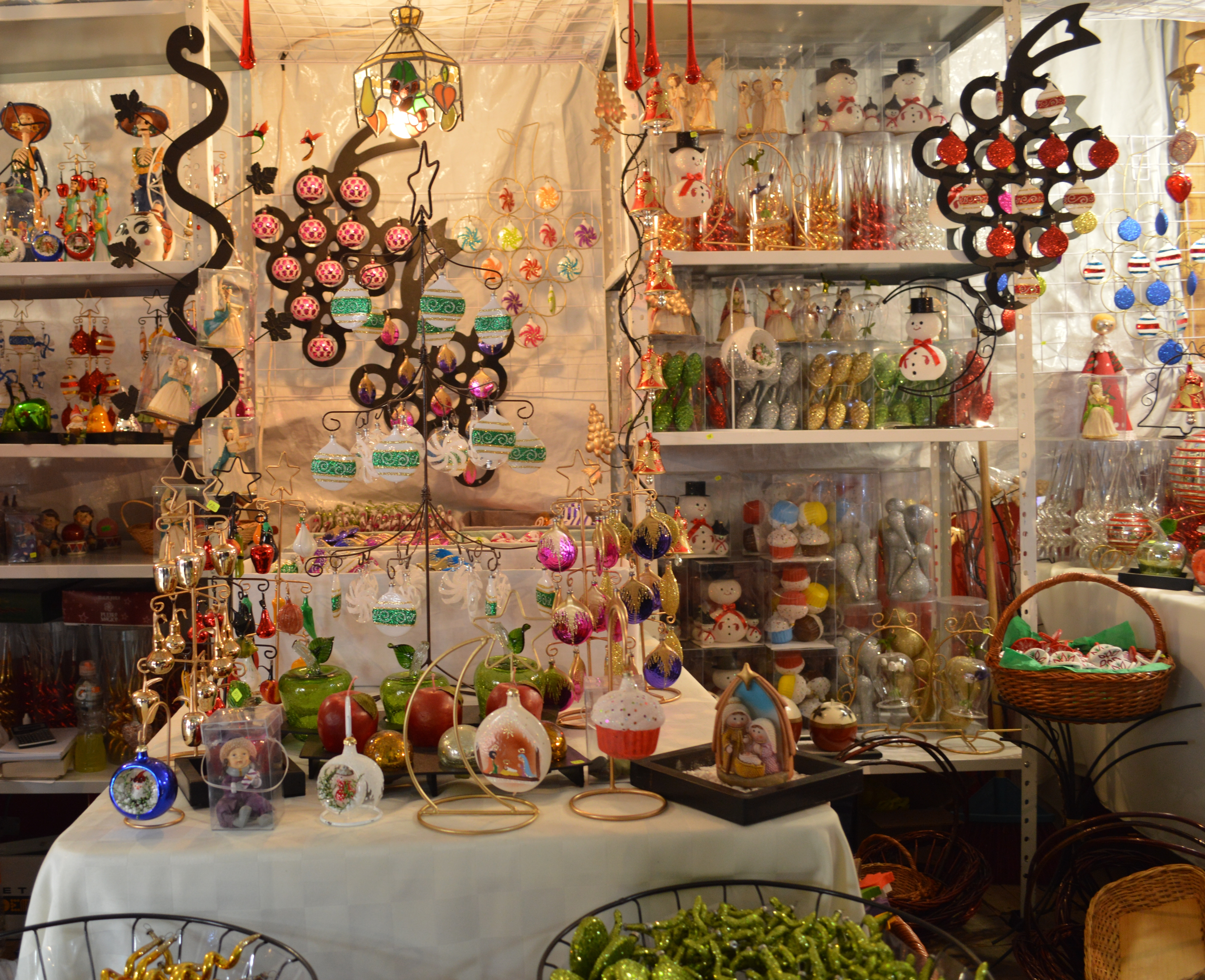 Stand at the Feria de Esfera in Tlalpujahua, Michoacan